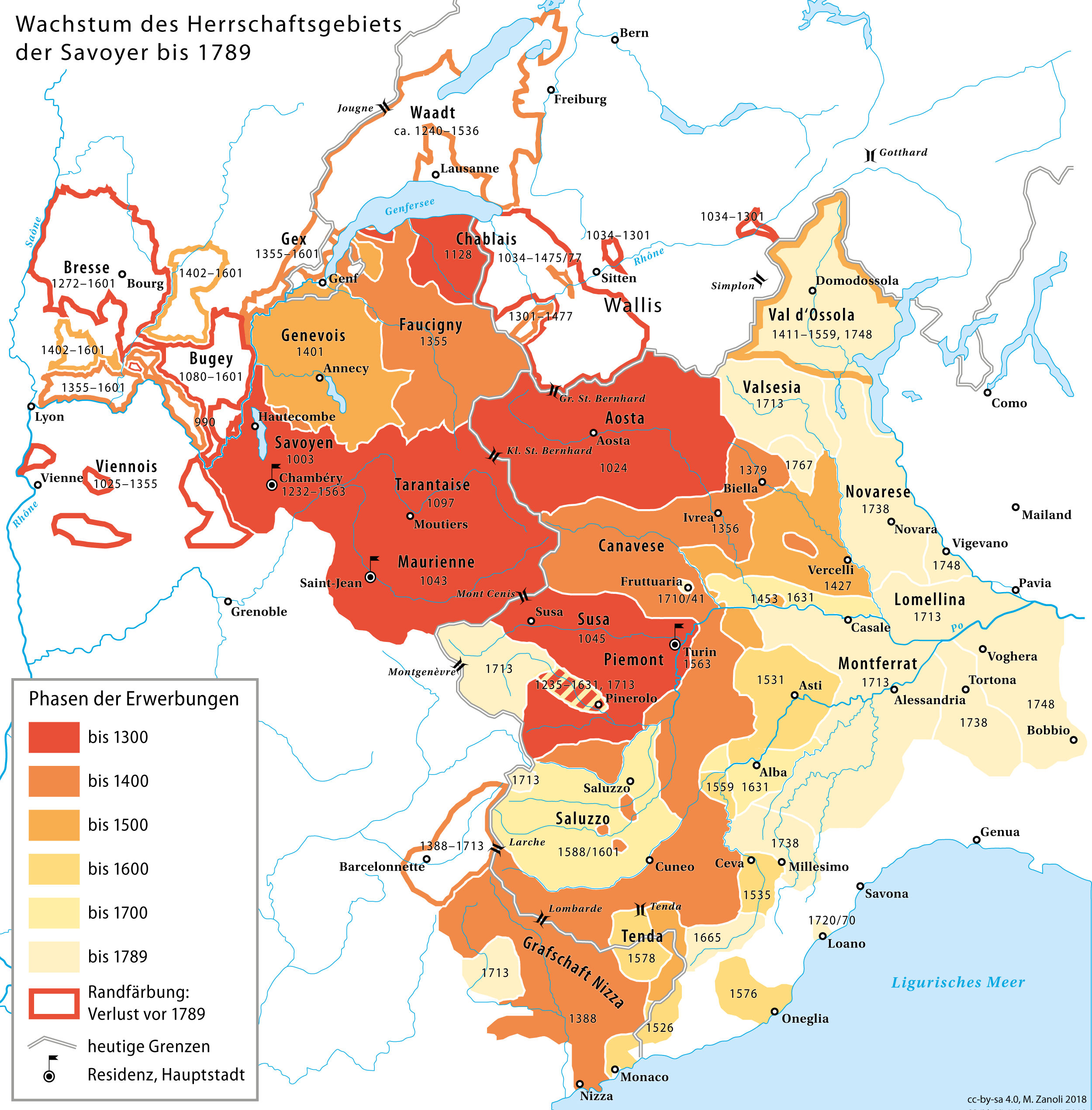 Map of the development of the territory controlled by the House of Savoy in Northern Italy until 1789